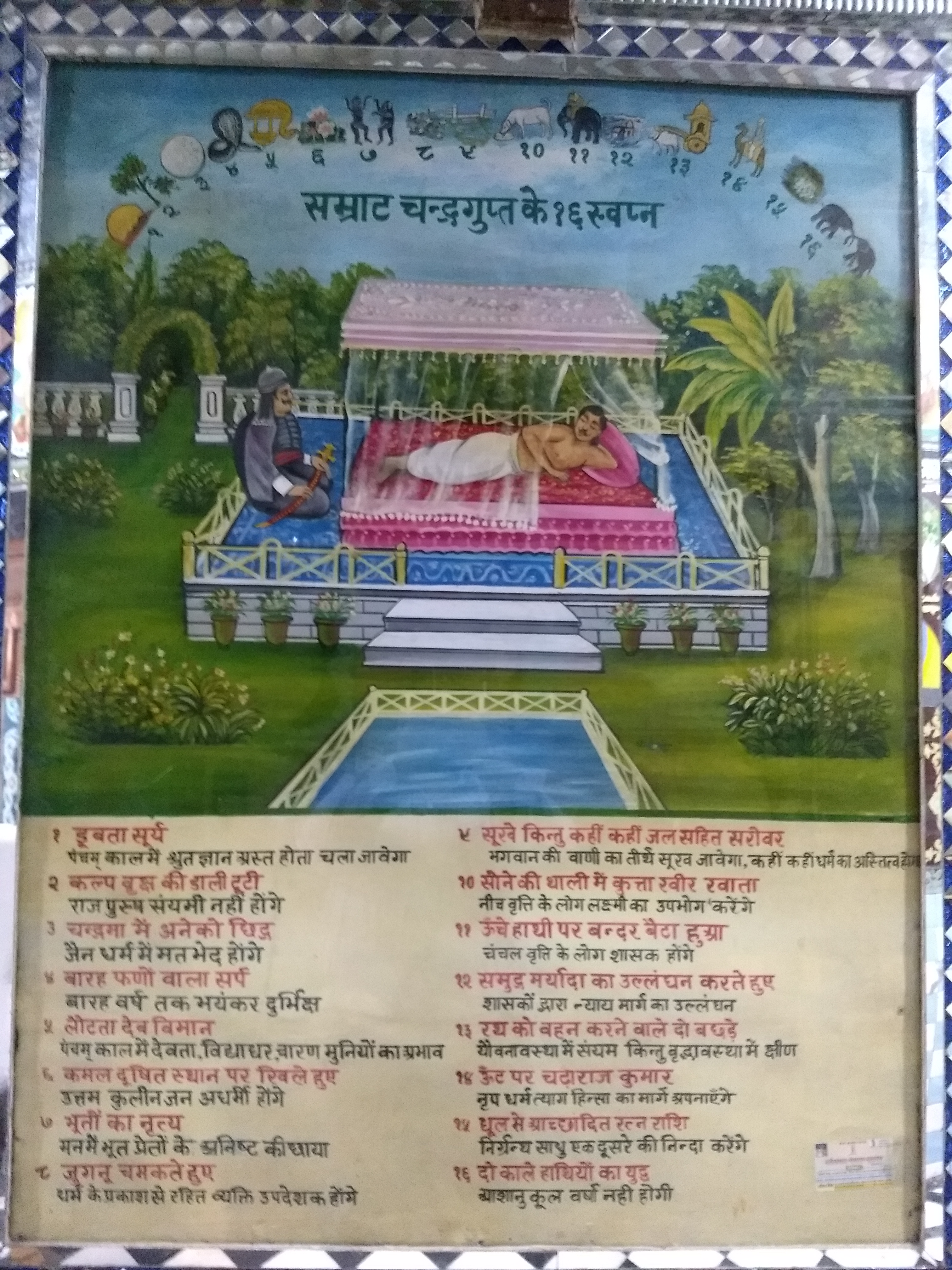 Tijara Jain temple paintings